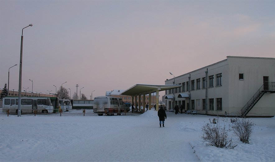 Bus station of Polatsk (Polotsk) city in the Vitebsk province ([v]oblast), in the northern Belarus.